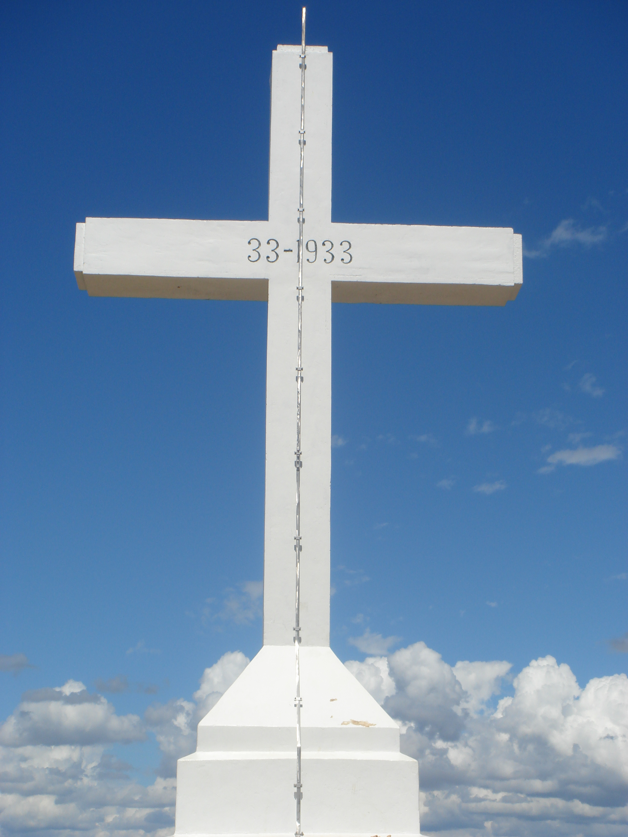 Cross on Križevac in Međugorje (Bosnia and Herzegovina)